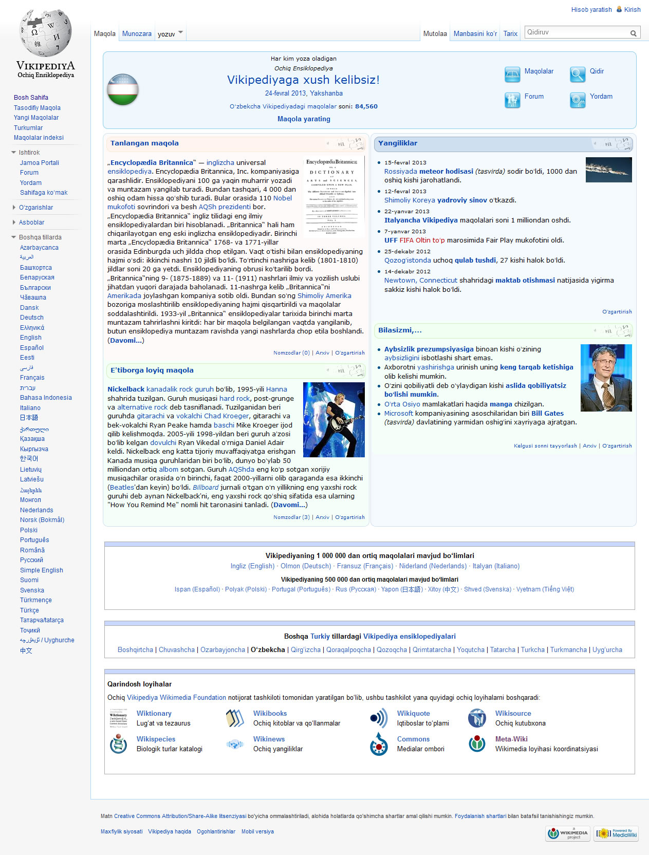 Screenshot of the latest version of the Uzbek Wikipedia's main page.